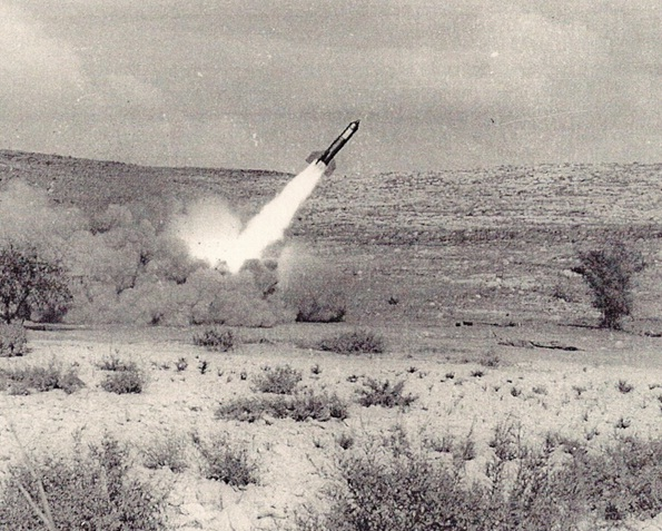 Zeev 500 rocket